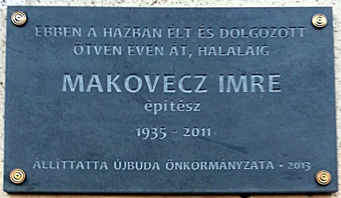 Imre Makovecz commemorative plaque in Budapest District XI, Villányi Street No 8